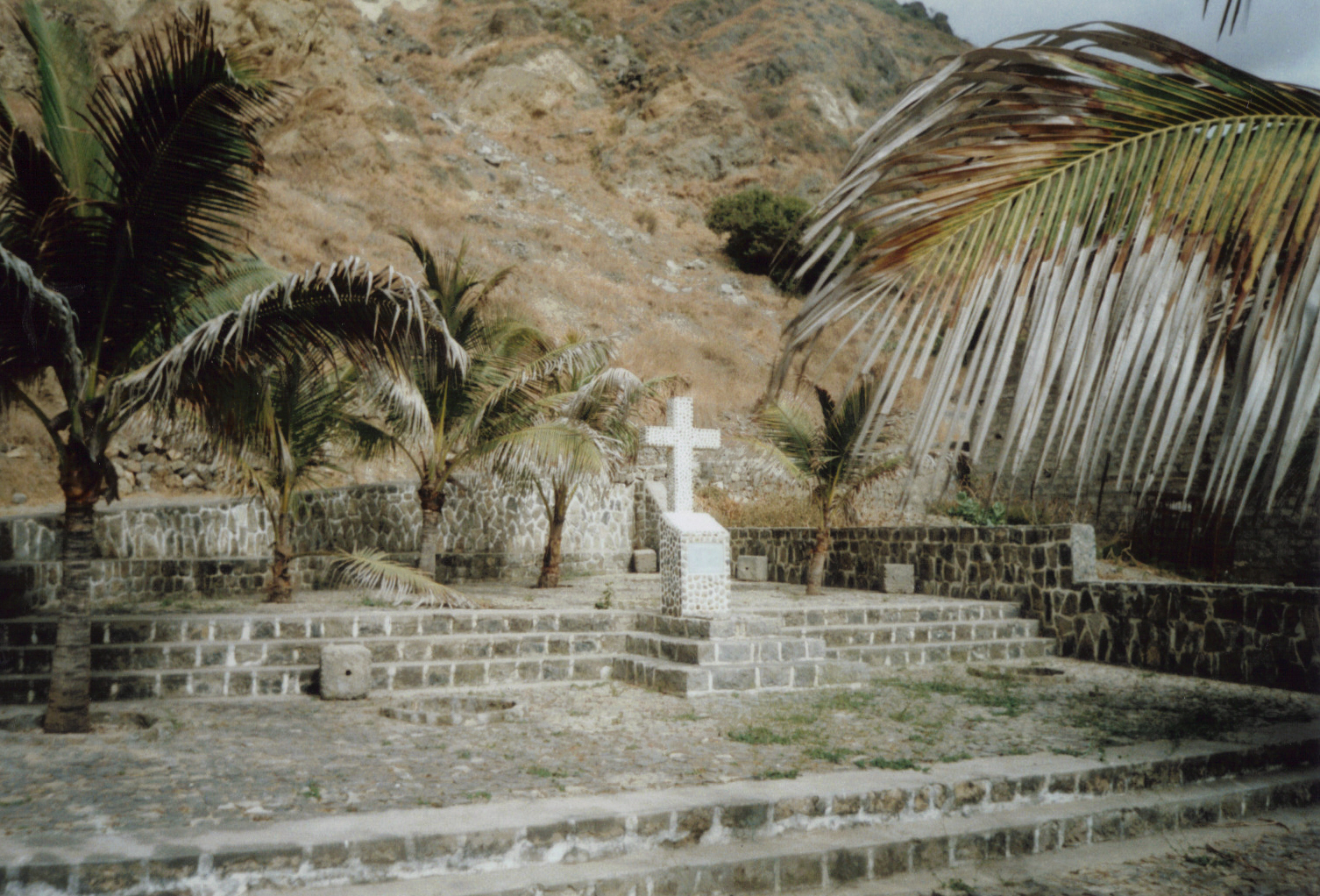 Monument in Fajã de Agua, ilha Brava, Cabo Verde.